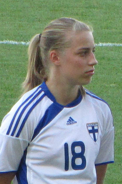 Linda Sällström during Finland - Northern Ireland friendly match.